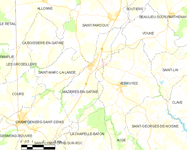 Map of French municipality Mazières-en-Gâtine